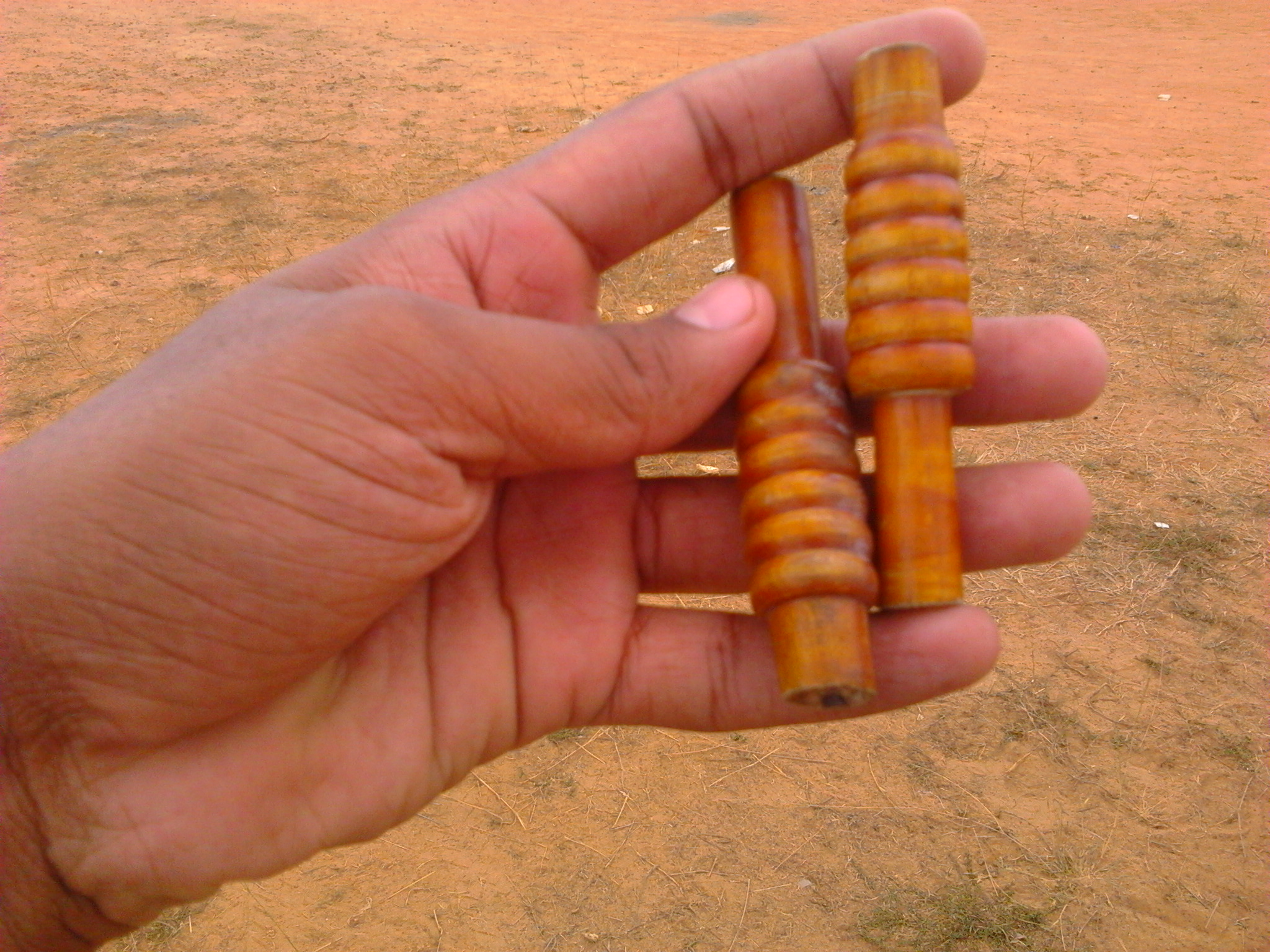 Photoed using Samsung Wave 525.